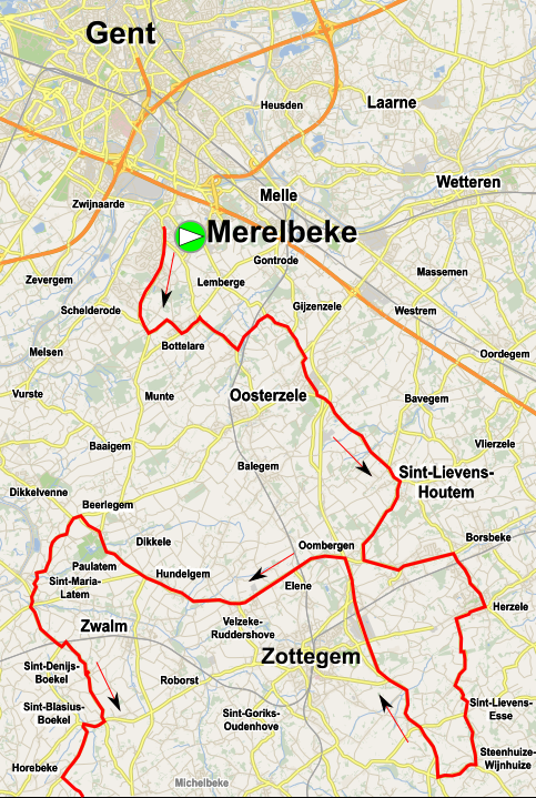 Circuit Het Nieuwsblad 2018, part 1 of the circuit. Reference: Roadmap version 03/12/2017, consulted on official website on 05/01/2018